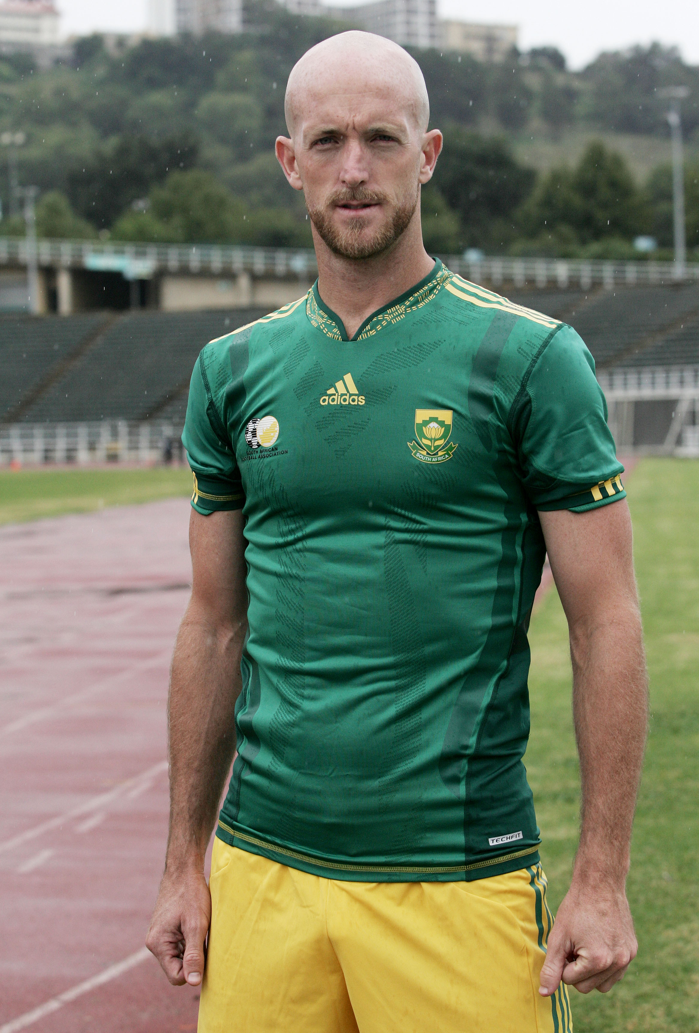 For more on the new bafana bafana jersey click here